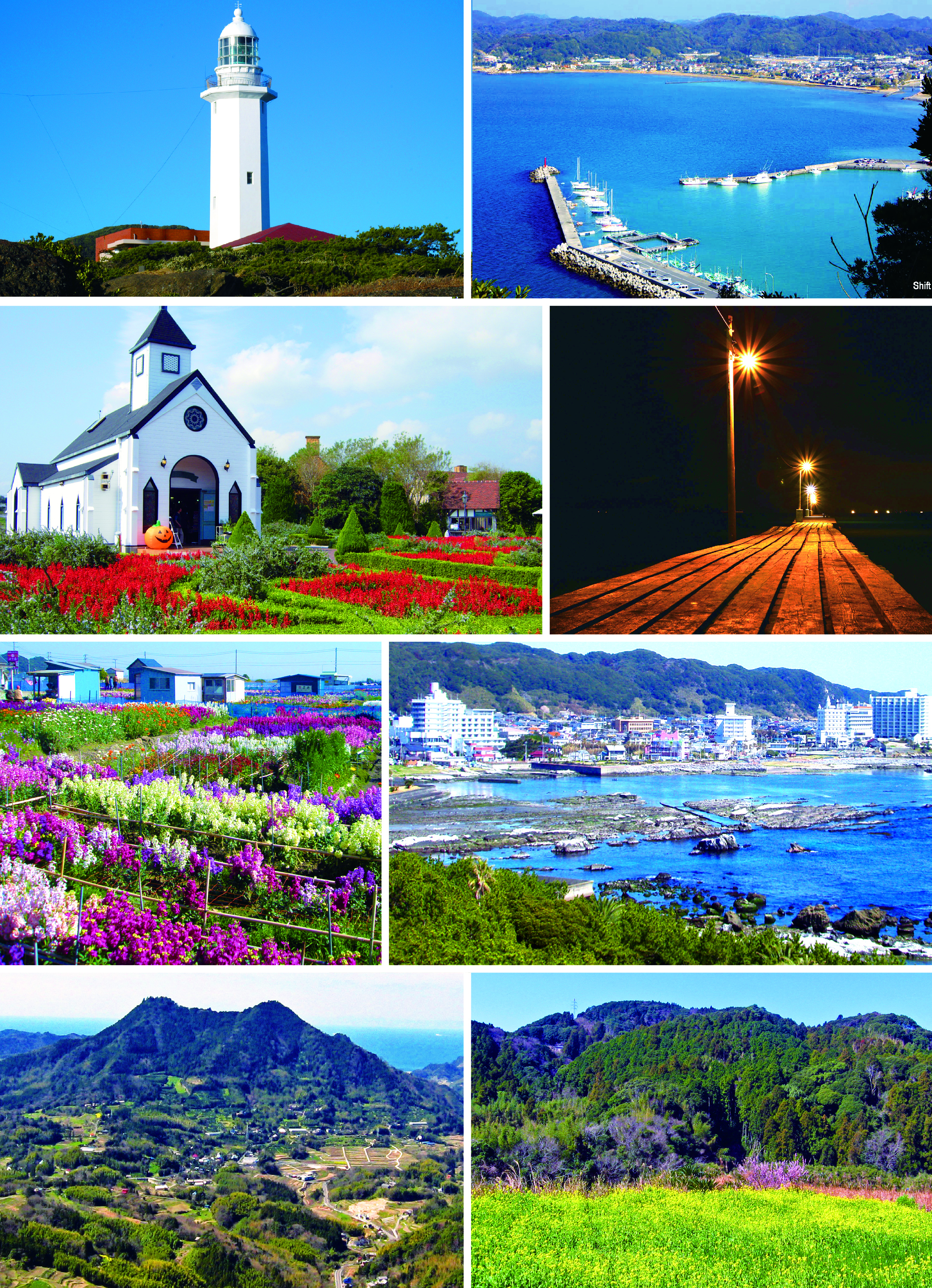 Minamiboso montage.jpg